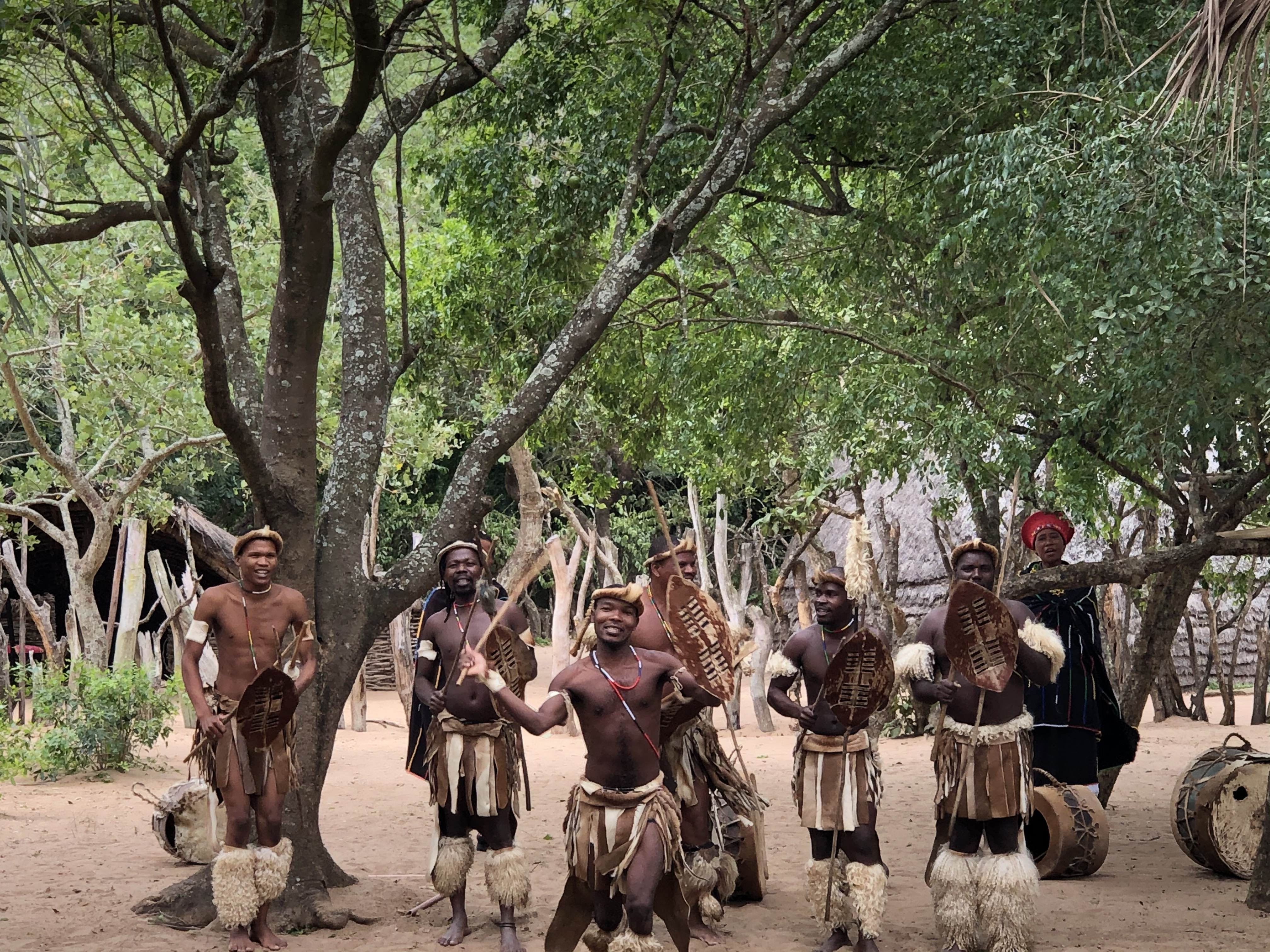 This is an image with the theme "Africa on the Move or Transport" from: South Africa